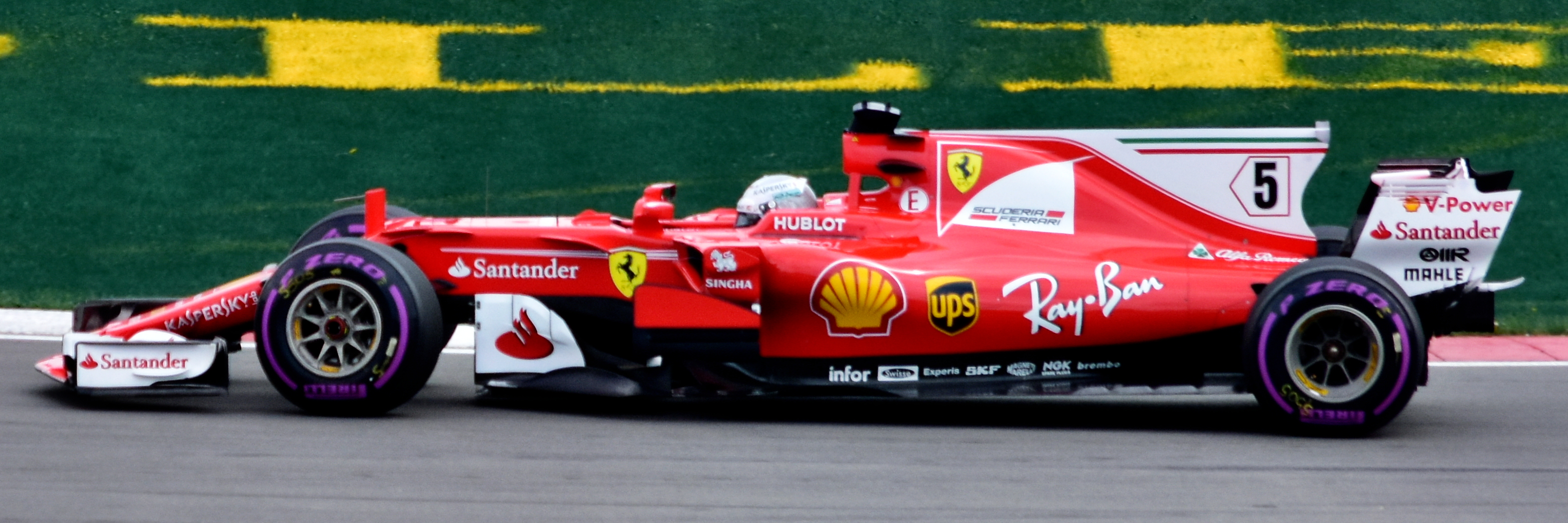 At the Grand Prix of Canada, Montreal, 2017.